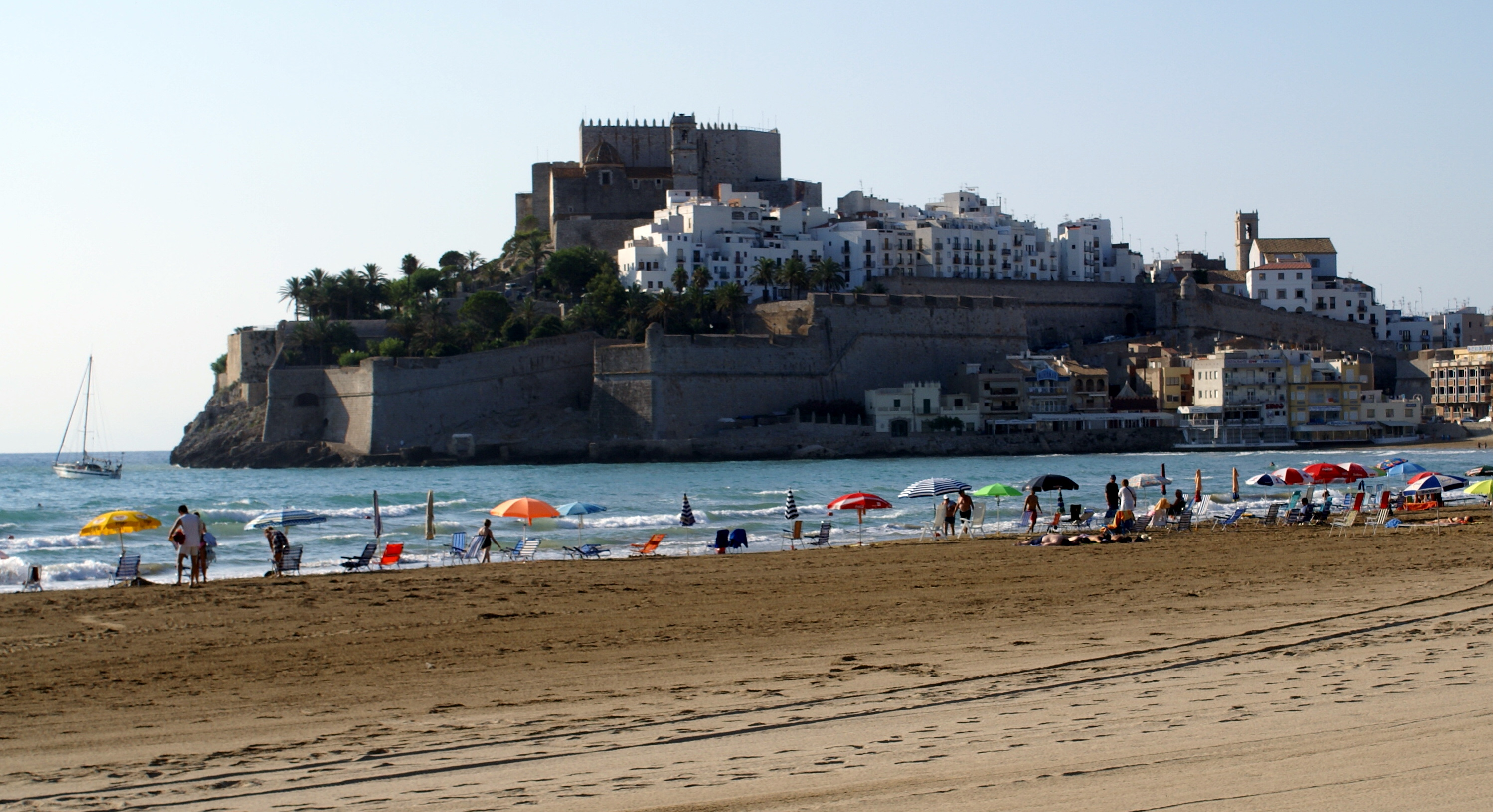 Historic centre of Peñíscola, Castellón, Spain.